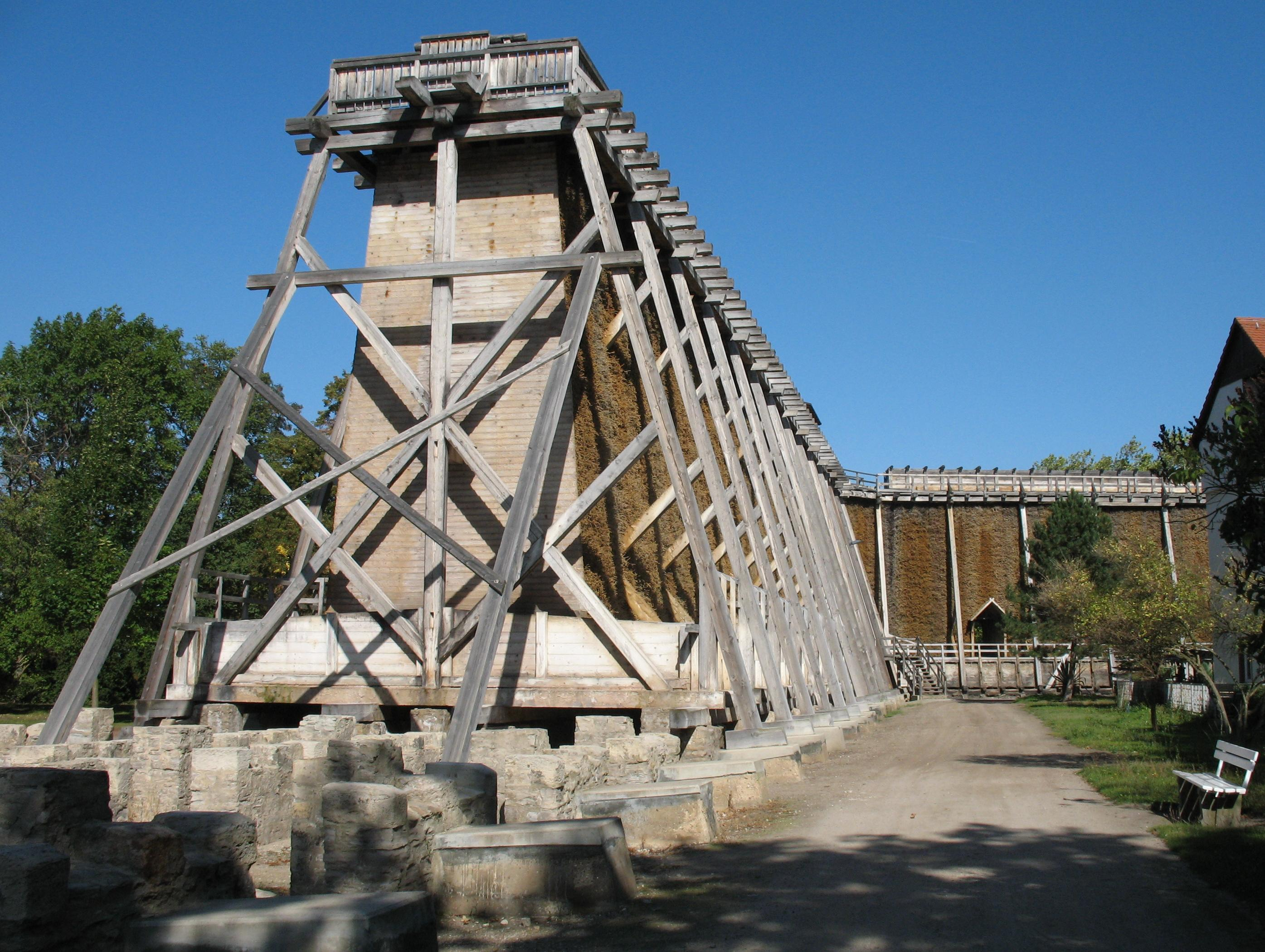 Graduation tower in Bad Dürrenberg in Saxony-Anhalt, Germany